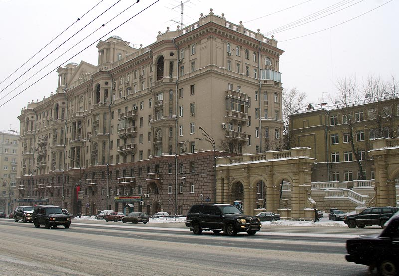 Moscow, Zemlyanoy Val, MGB Apartments by Yevgeny Rybitzky, 1949